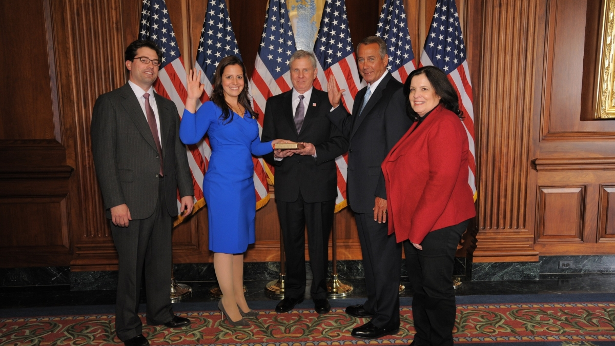 January 6, 2015 Press Release Washington, D.C. – Today, Rep. Elise Stefanik (R-NY-21) was officially sworn in to represent New York’s 21st district in the U.S. House of Representatives. “I am thrilled and humbled by this opportunity to serve the wonderful people of New York’s 21st district,” said Congresswoman Stefanik. “I pledge to be a strong voice for our community in Congress and to work my hardest to advance bipartisan solutions. Washington is broken and now is the time for leaders to work together on behalf of the American people. I am grateful for this incredible opportunity.” Attached is a high resolution photo of Rep. Stefanik being sworn in by Speaker John Boehner.